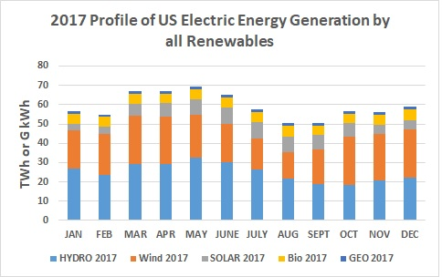 2017 Profile of US Electric Energy Generation by all Renewables